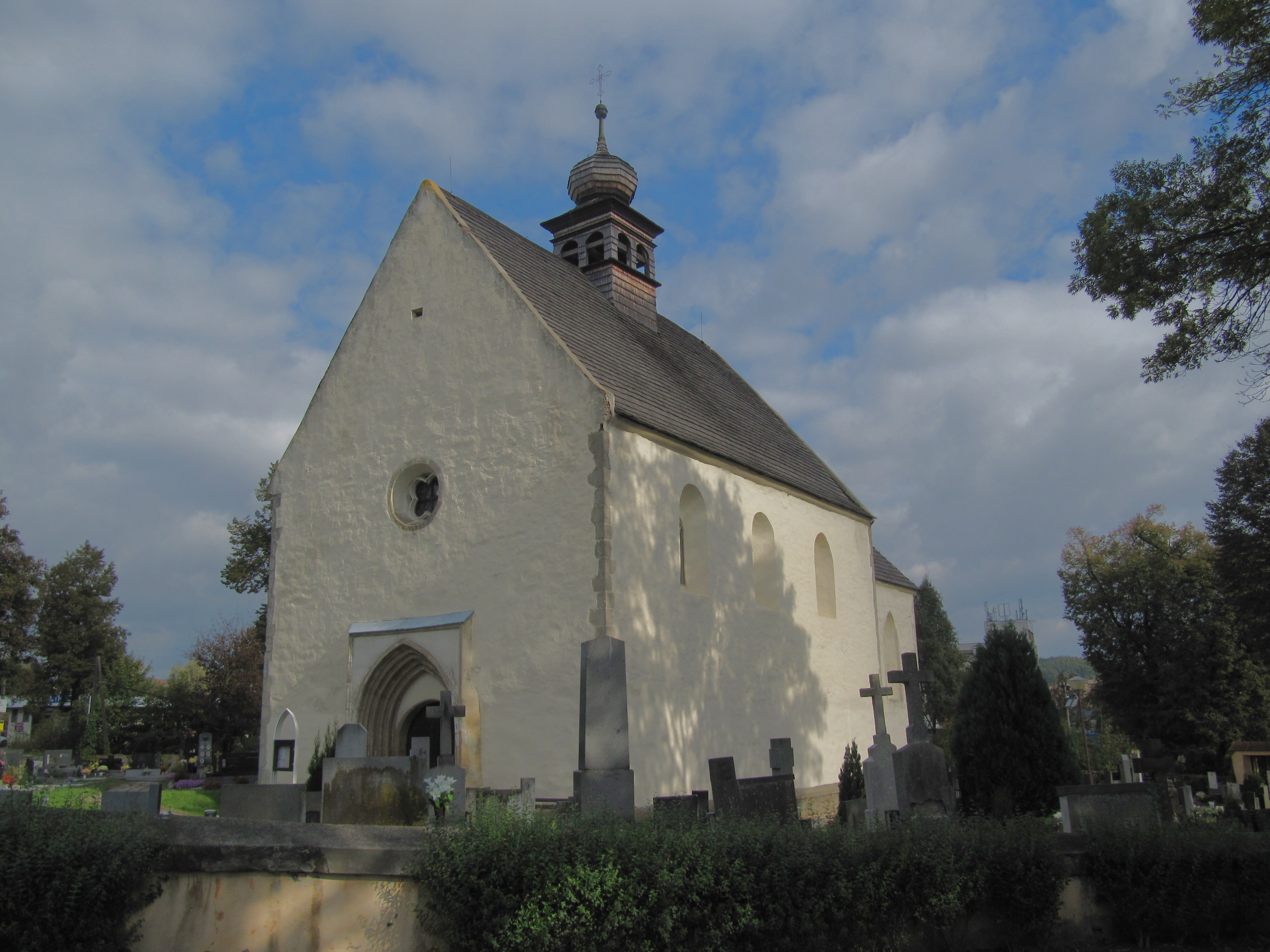 Tečovice in Zlín District, Czech Republic. Early Gothic church of St. James the Greater from 13th century.